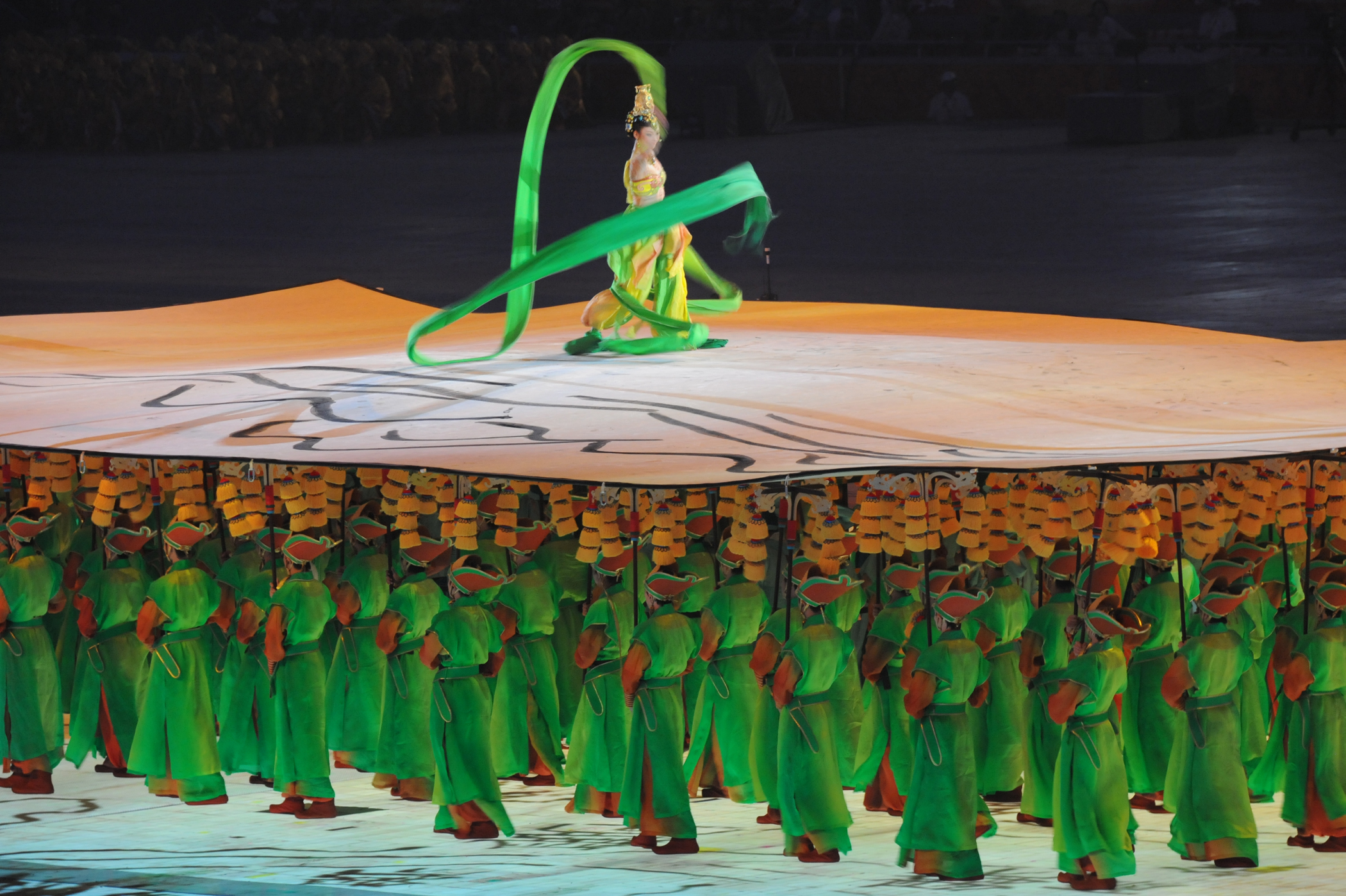 Fourteen thousand Chinese performers adorned with 15,153 different types of costumes perform during the opening ceremony of the 2008 Olympic Games in Beijing, China, August 8, 2008.